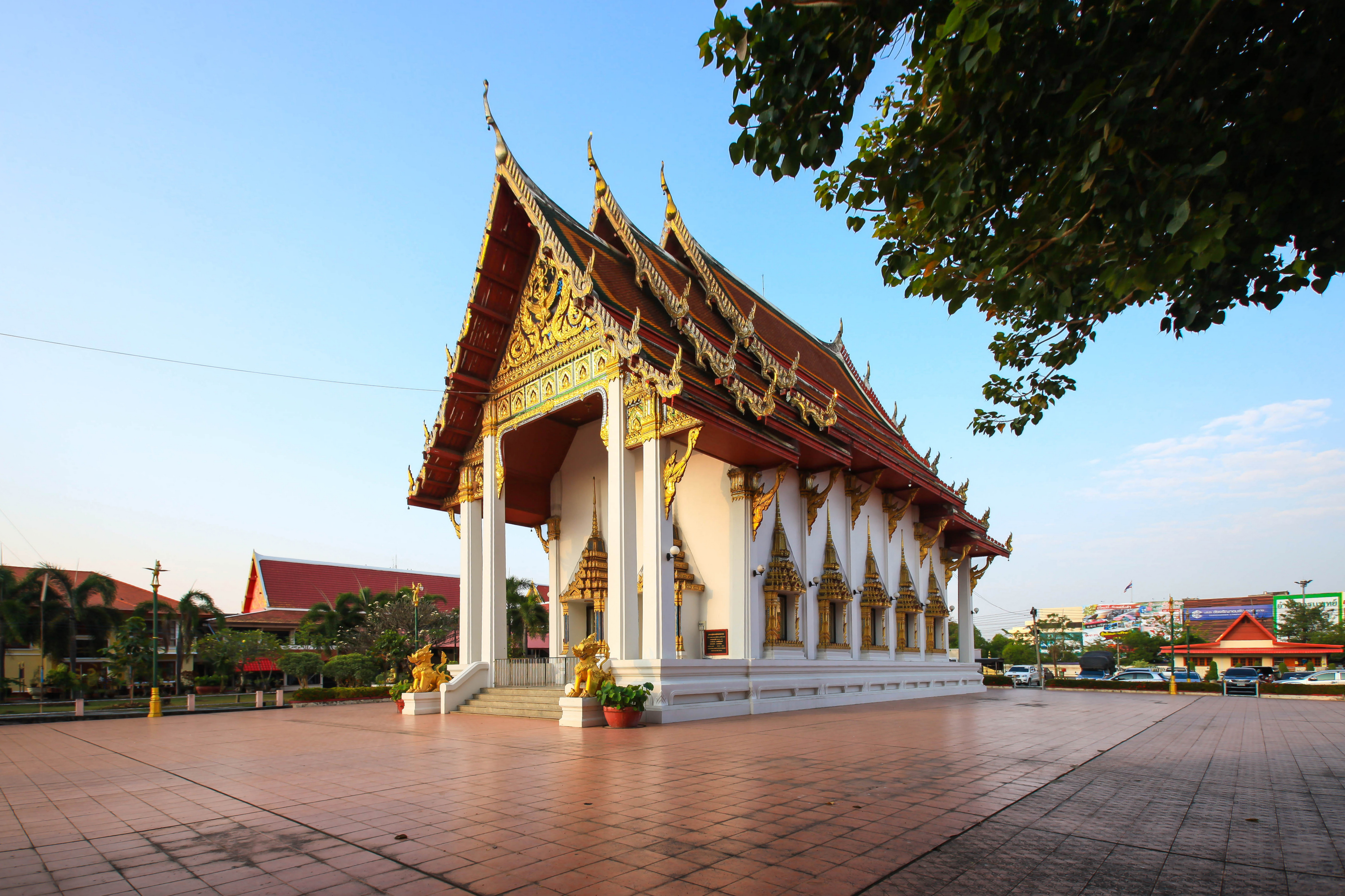 Wat Tha Thanon is Buddhist temple in Mueang Uttaradit District, Uttaradit Province, northern Thailand)